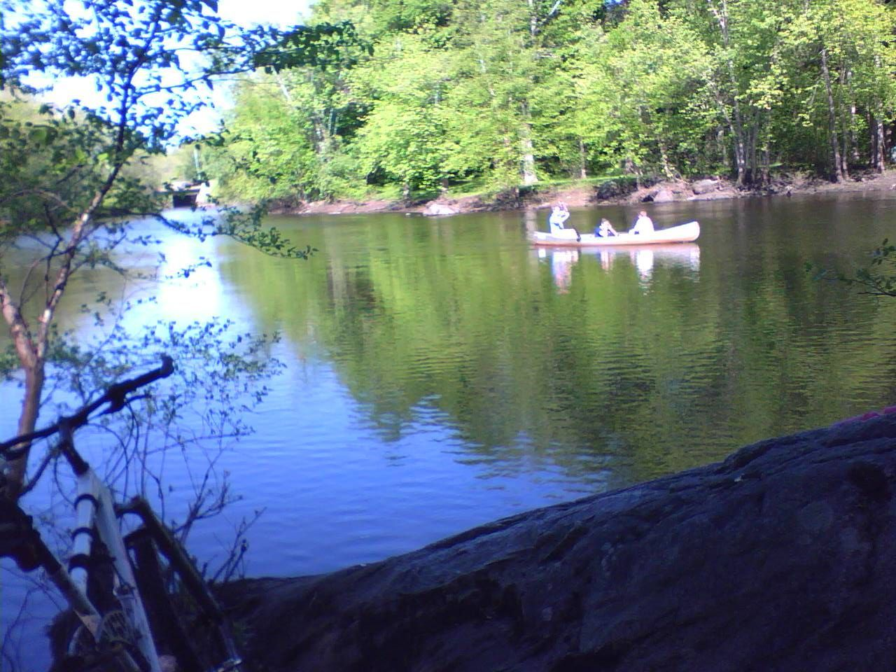 Canoeists on the Sudbury River pass by Egg Rock in Concord, Massachusetts, USA. View from Egg Rock toward NE also shows Concord River and bridge over Lowell Road.